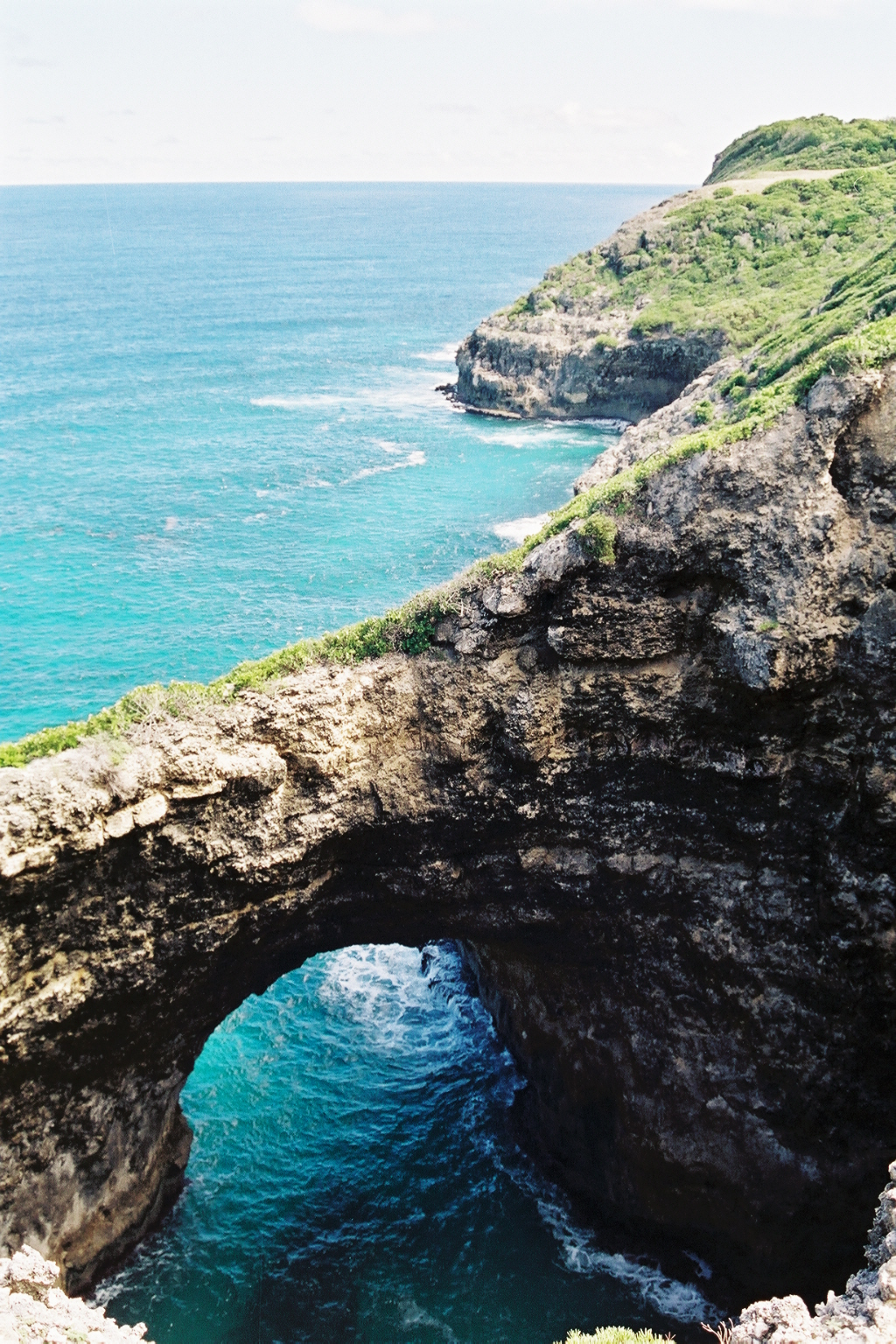 Gueule Grand-Gouffre, a geomorphological complex including a littoral chasm (from a roof collapse) and a natural arche, in Saint-Louis de Marie-Galante, Guadeloupe.